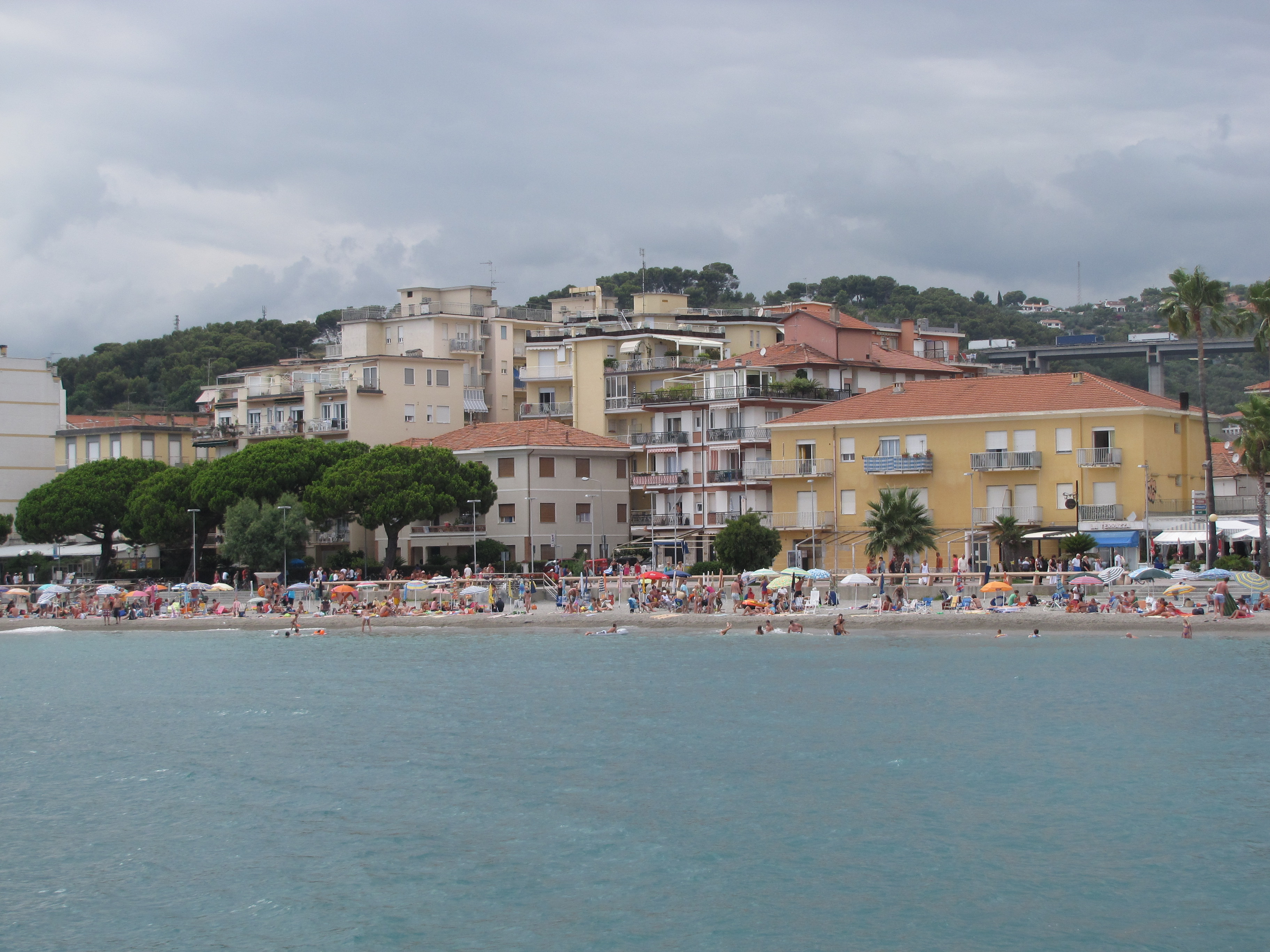 A view from the sea to San Bartolomeo Al Mare, Italy